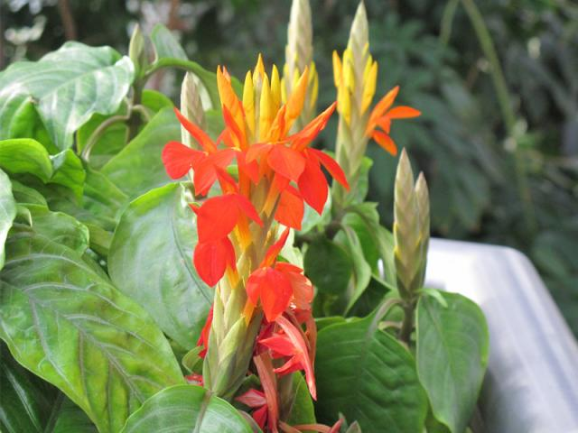 Aphelandra aurantiaca USBG image